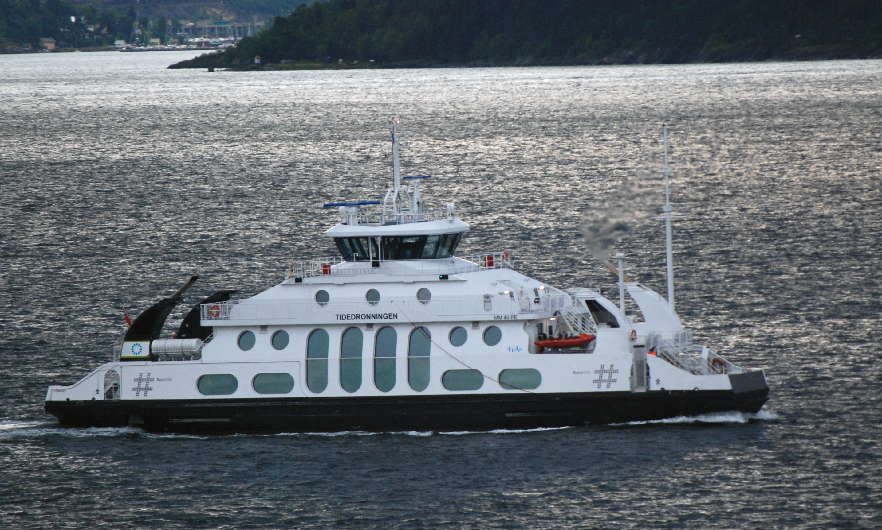 Ferry TIDEDRONNINGEN